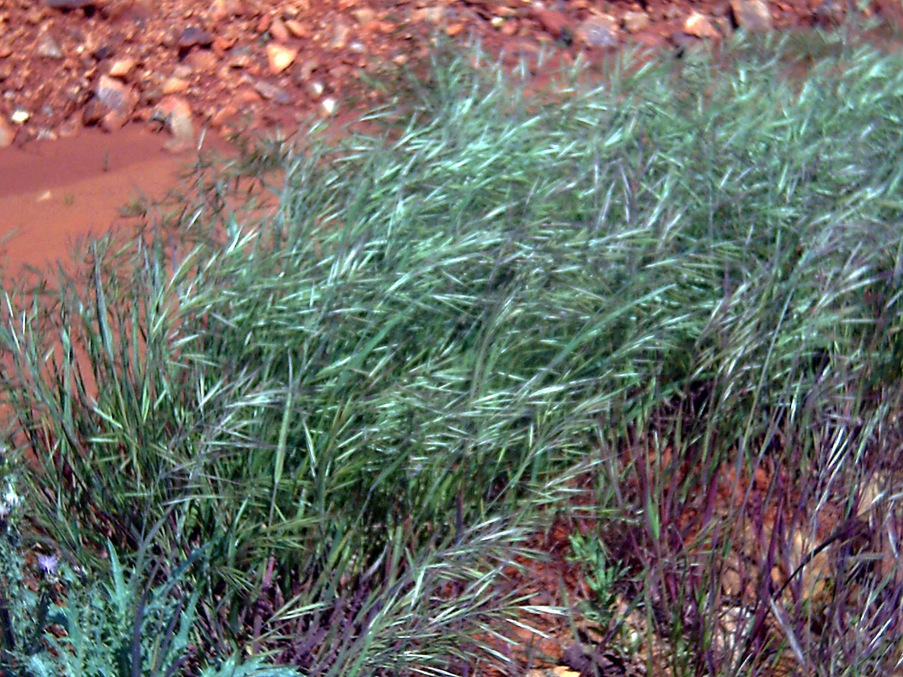 Bromus madritensis habitus, Campo de Calatrava, Spain